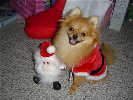 Siu-Siu, an orange sable color Pomeranian, Born 3-8-2004.